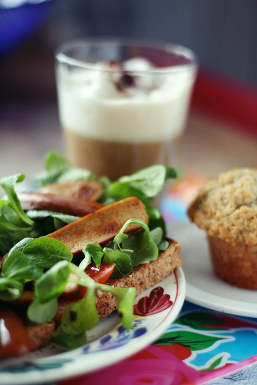 Vegan Sausages, vegan coffee latte and a vegan muffin